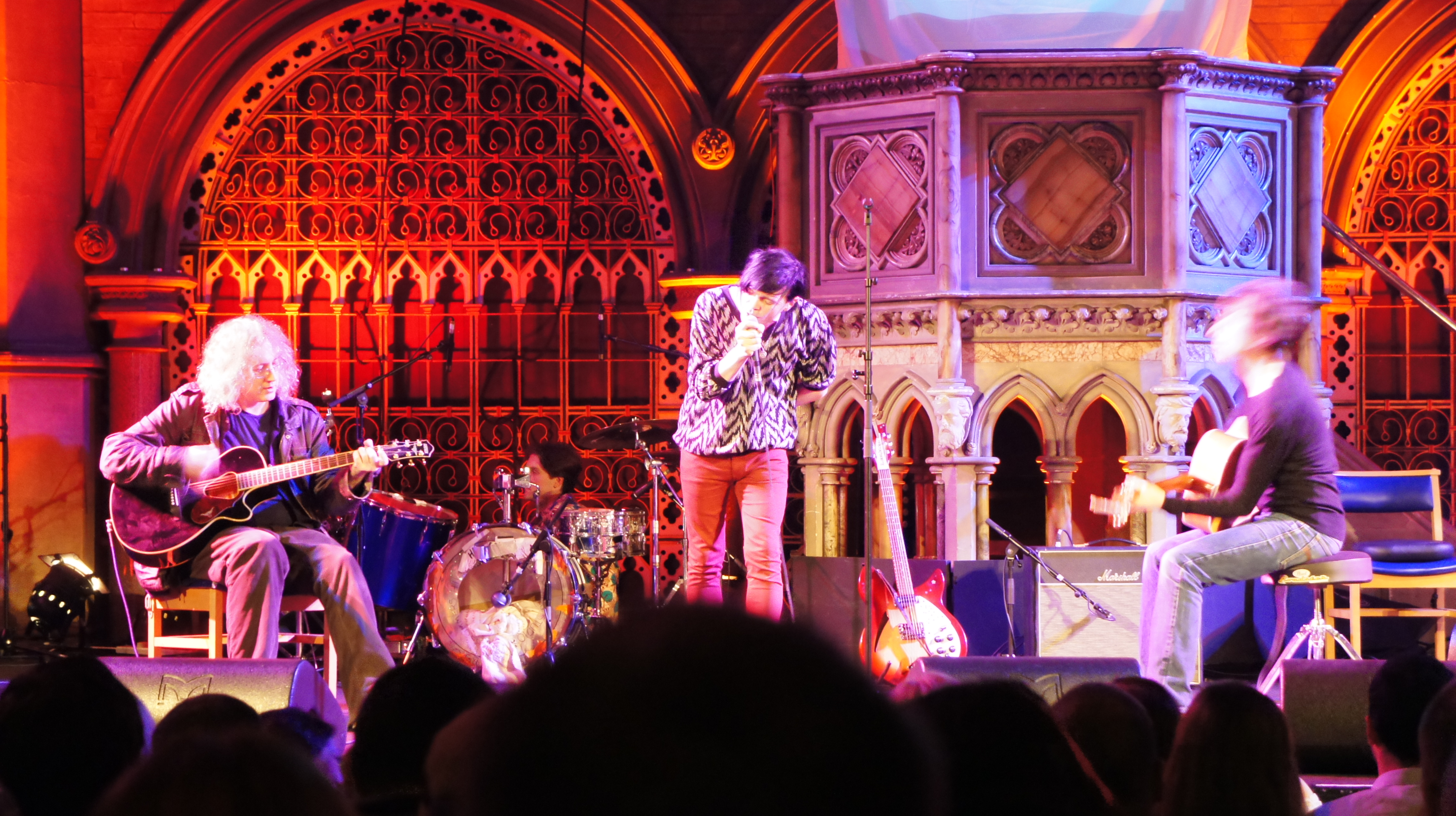 Kevin Shields performing as a guest with The Charlatans at Union Chapel in London, England on 16 March 2011.